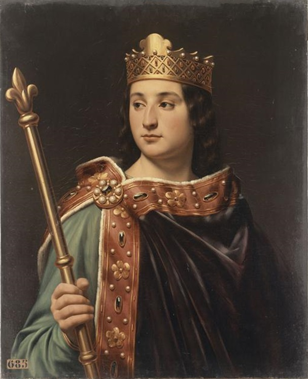 Portraits of Kings of France is a serie of portraits commissioned between 1837 and 1838 by Louis Philippe I and painted by various artists for the Musée historique de Versailles.